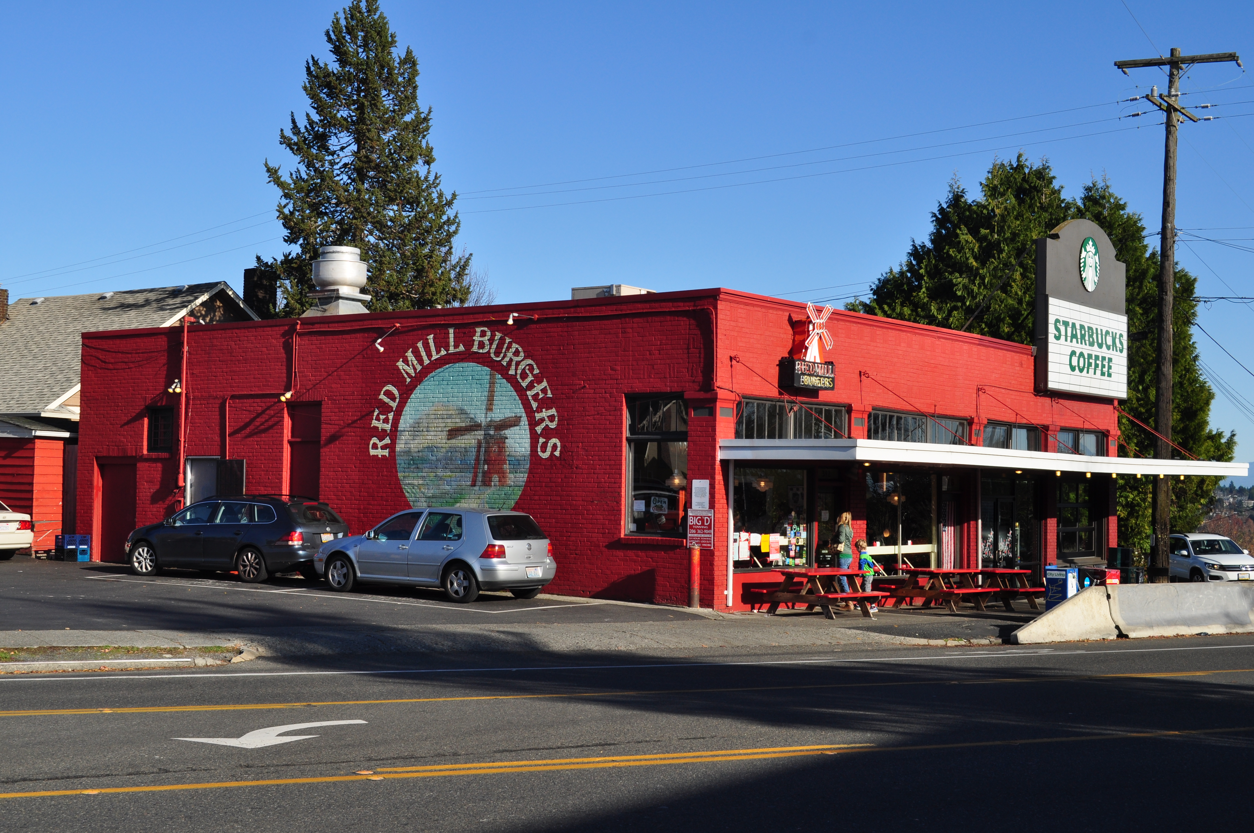 Red Mill Burgers and the adjacent Starbucks on Phinney Ridge, Seattle, Washington, USA.